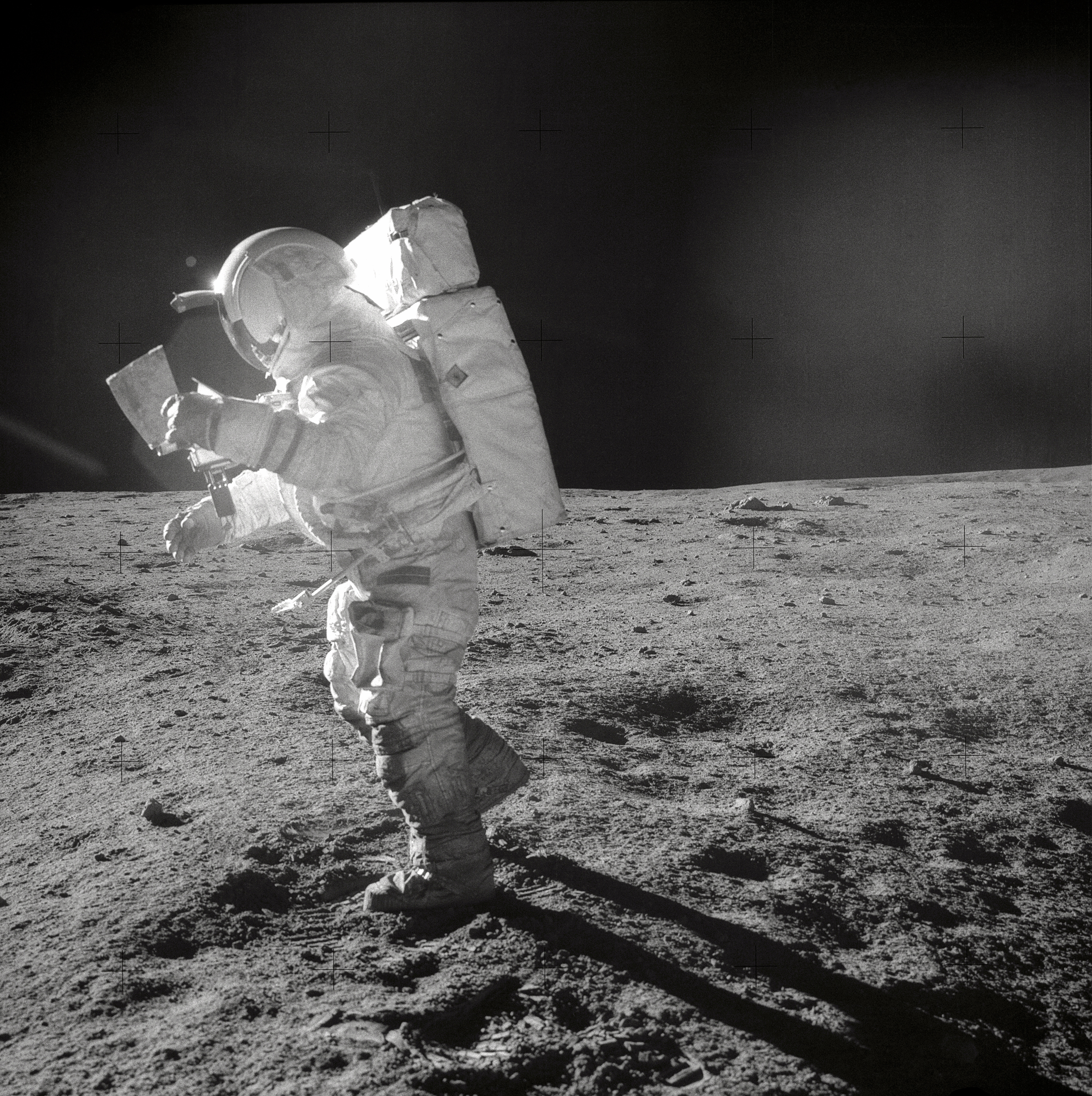 Astronaut Edgar D. Mitchell, Apollo 14 Lunar Module pilot, moves across the lunar surface as he looks over a traverse map during extravehicular activity (EVA). Lunar dust can be seen clinging to the boots and legs of the space suit. Image # : AS14-64-9089